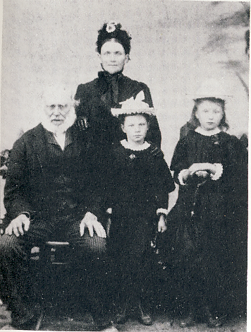 c 1890 photograph of William Bannon (convict) with wife Harriet and grandchildren